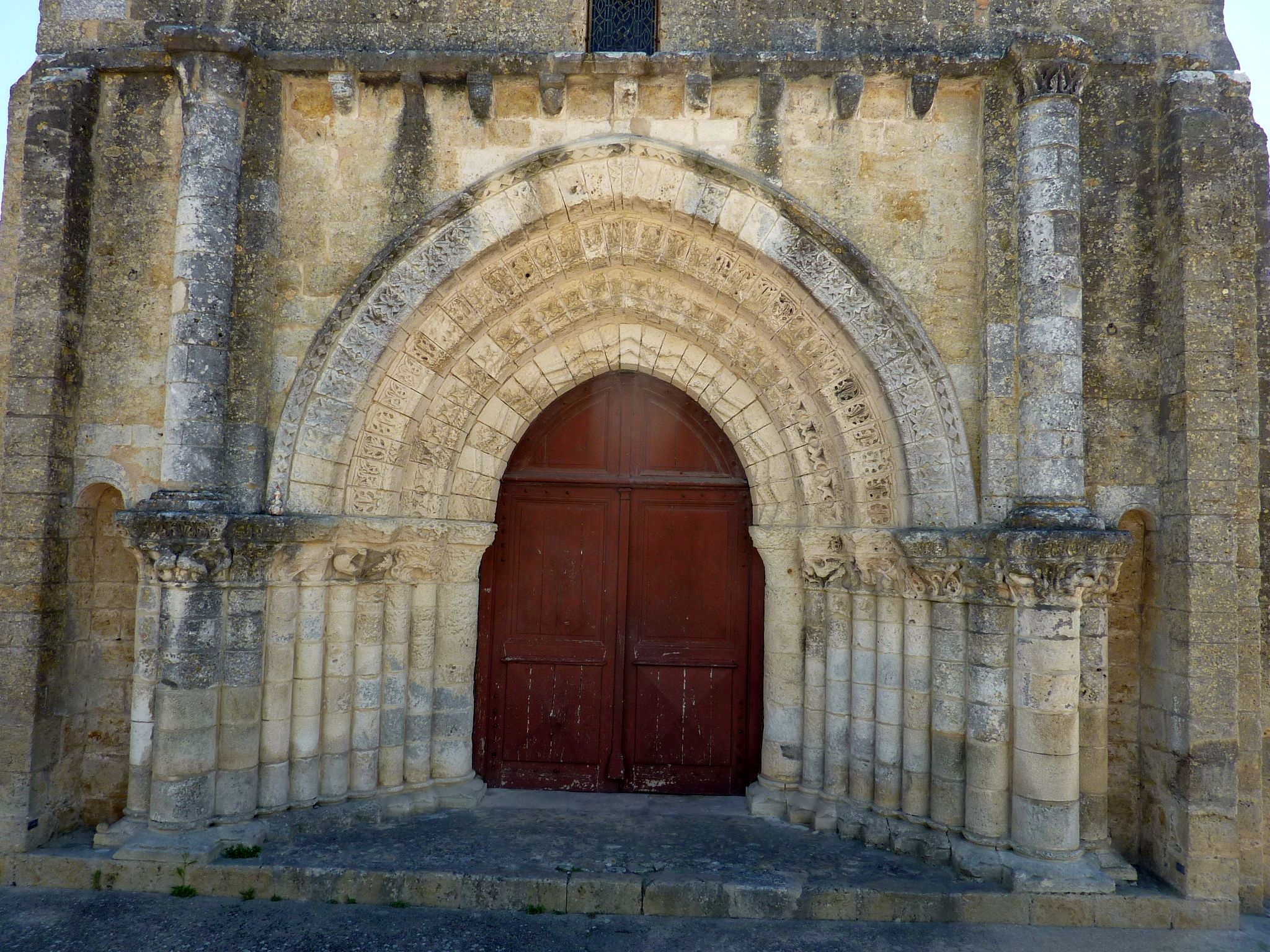 Exterior of Église Saint-Étienne d'Ars-en-Ré